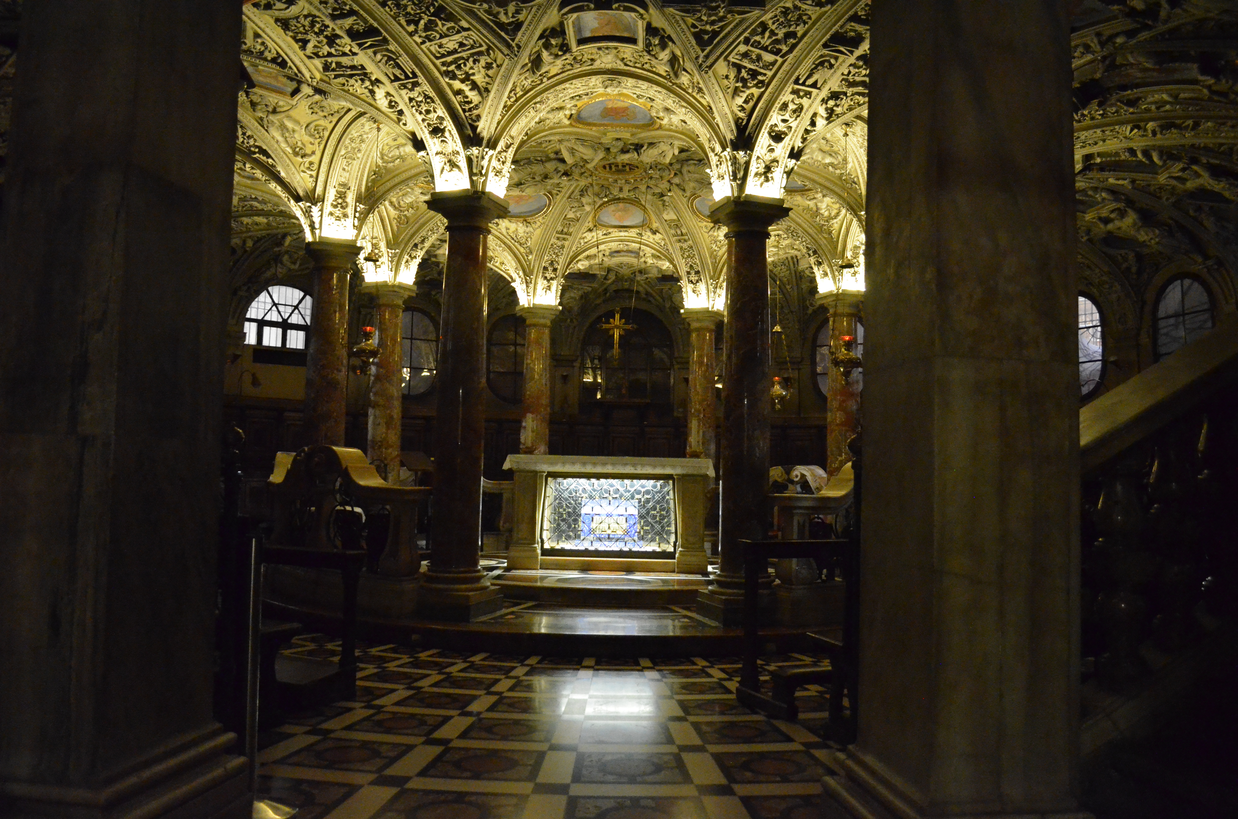 Interior of the Duomo (Milan)